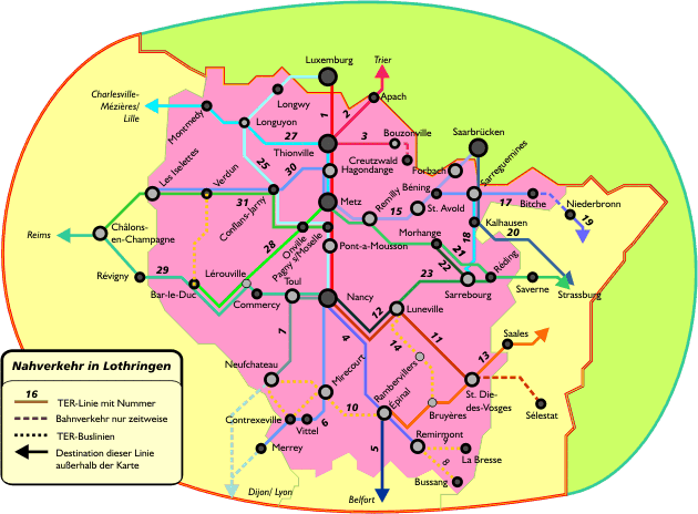 Map of Local Railways in Lorraine, France